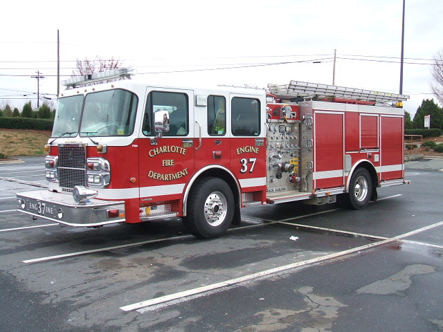 Engine 37 at the grocery store.